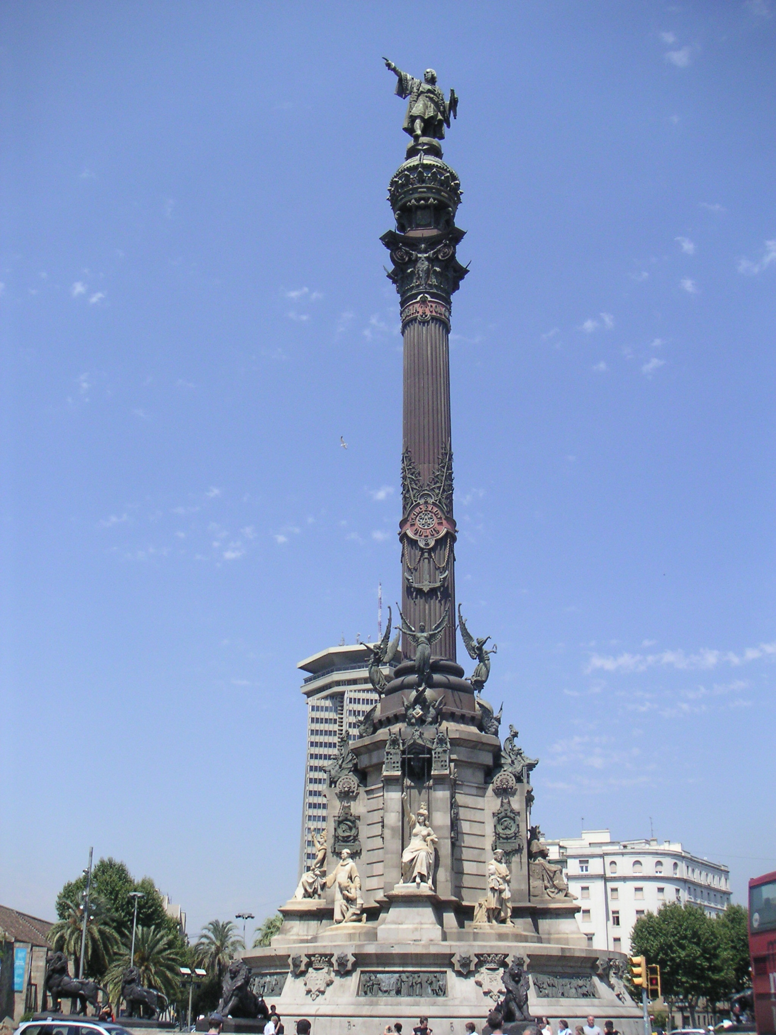 Columbus statue, Barcelona, Spain.